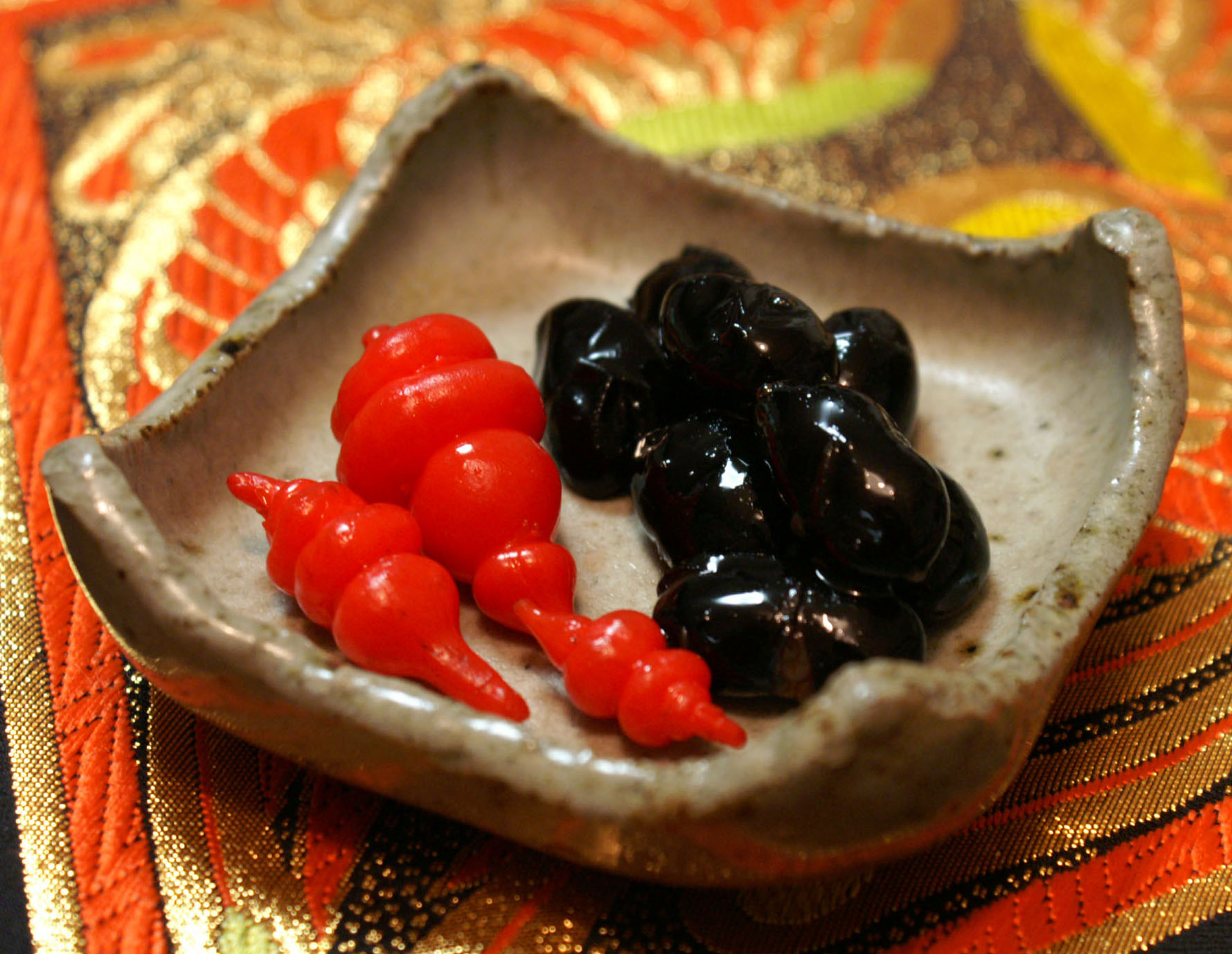 Chinese artichokes and black soybeans